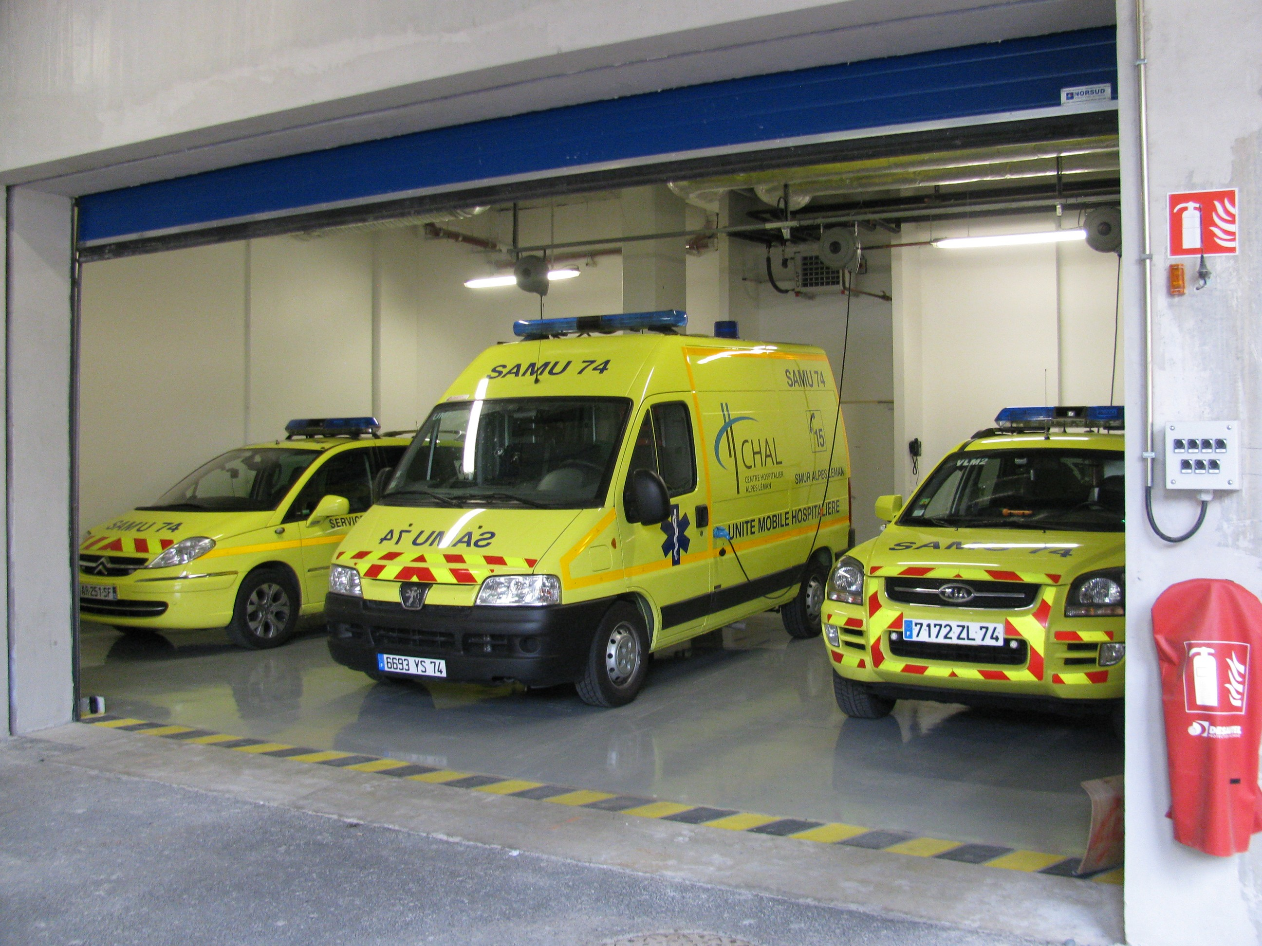 Vehicules from SAMU74, SMUR Alpes-Leman